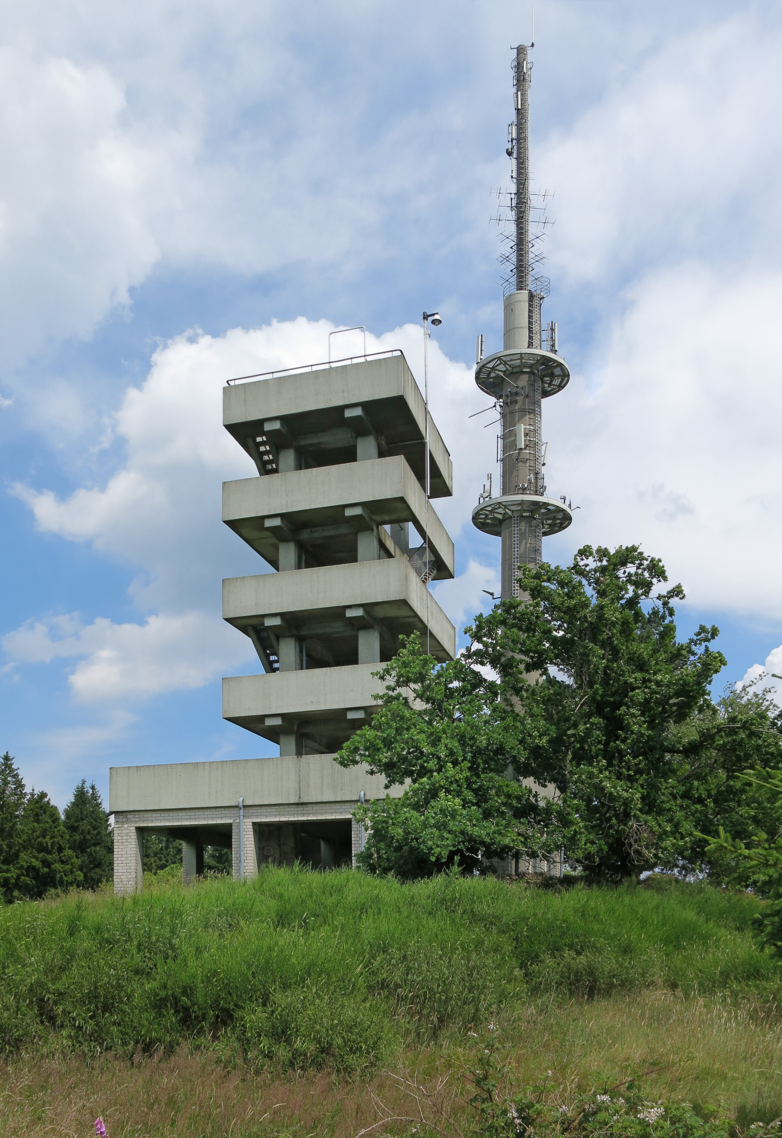 Lookout-tower and communications tower on Bollerberg near Hallenberg in the Sauerland.